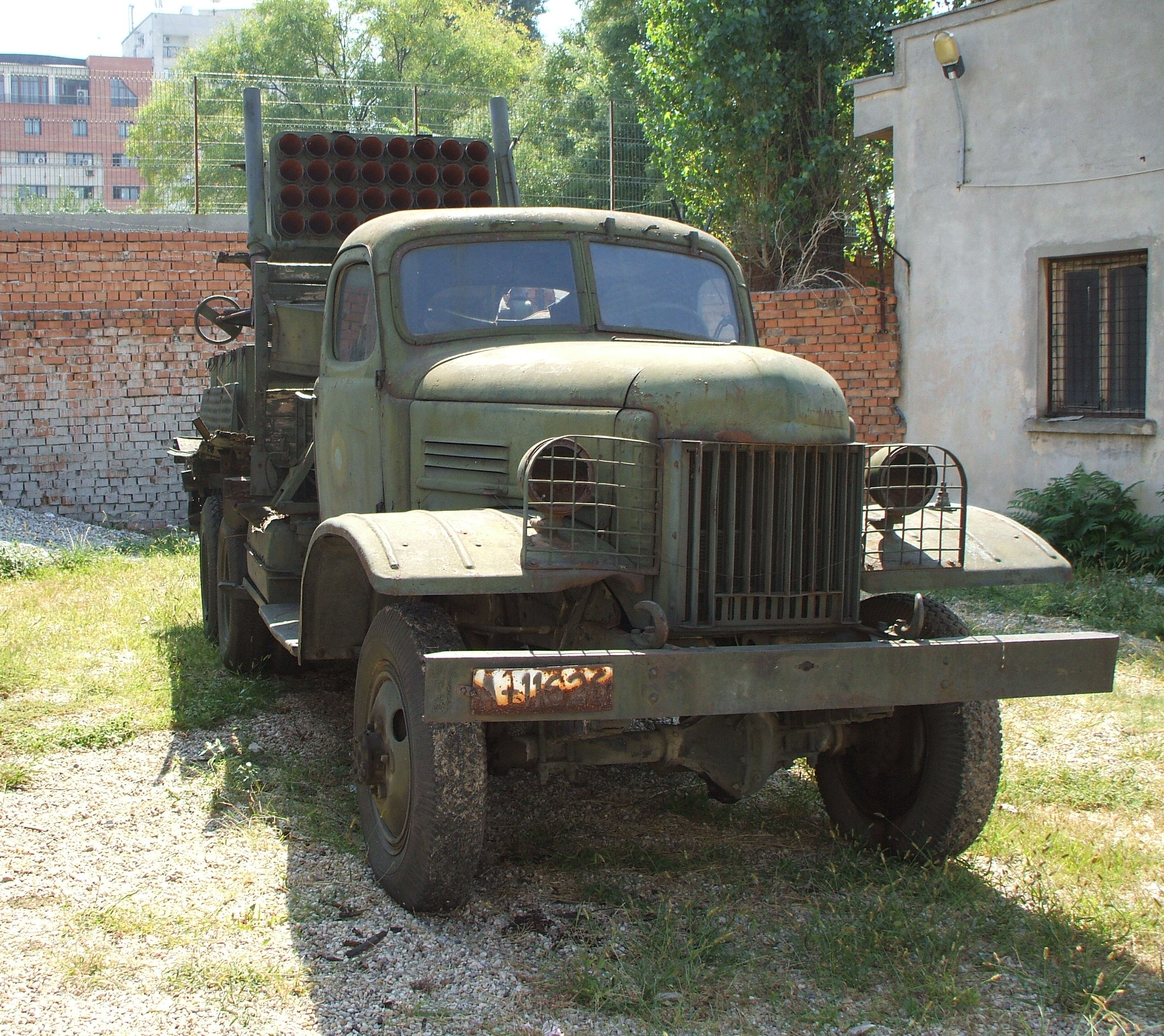 RM-51 (Raketomet vzor 1951), known as the R2 in Romanian service, is a Czechoslovak 130 mm rocket launcher mounted on a ZIS-151 chassis.